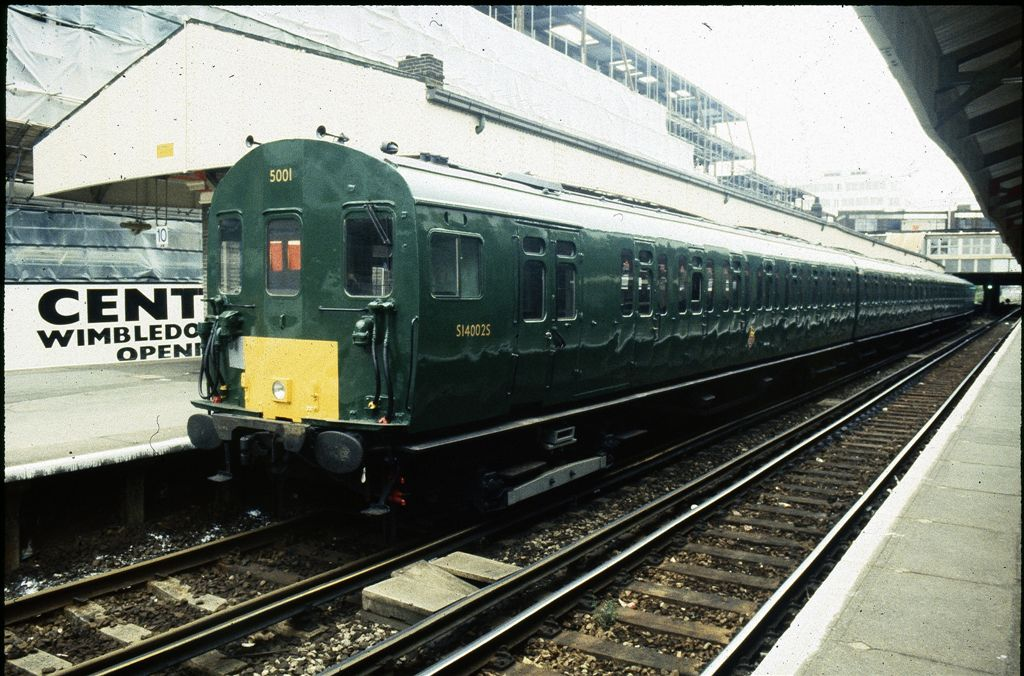 4EPB set at Wimbledon.jpg